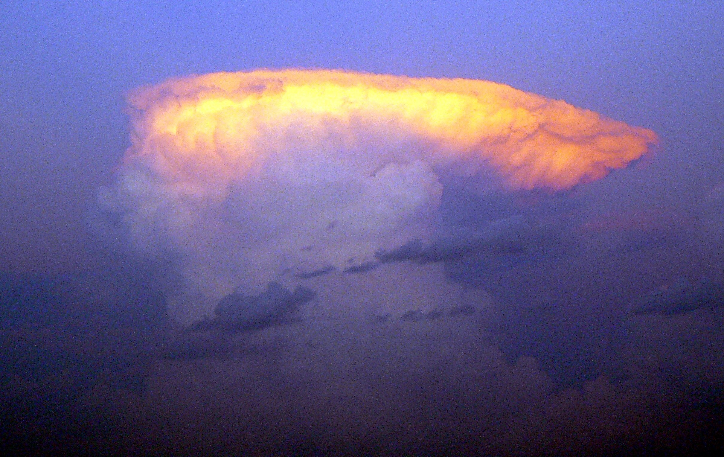 The setting sun captures the top of a classic anvil-shaped thunderstorm cloud in east central Nebraska